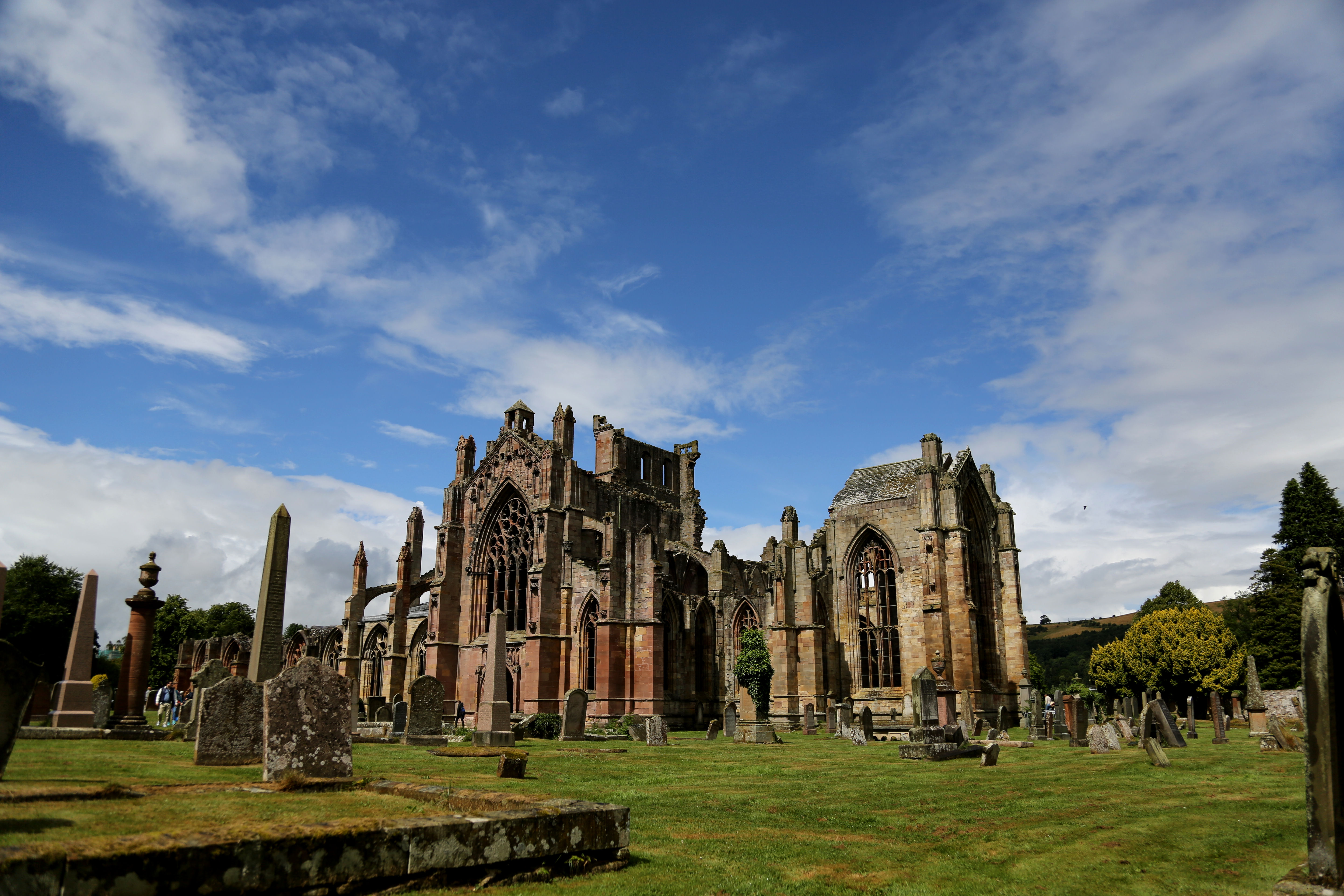 Melrose Abbey